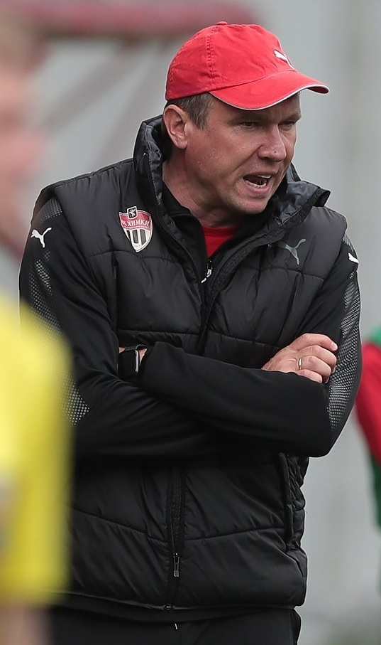 Andrei Talalayev coaching FC Khimki in a game against FC Luch Vladivostok.